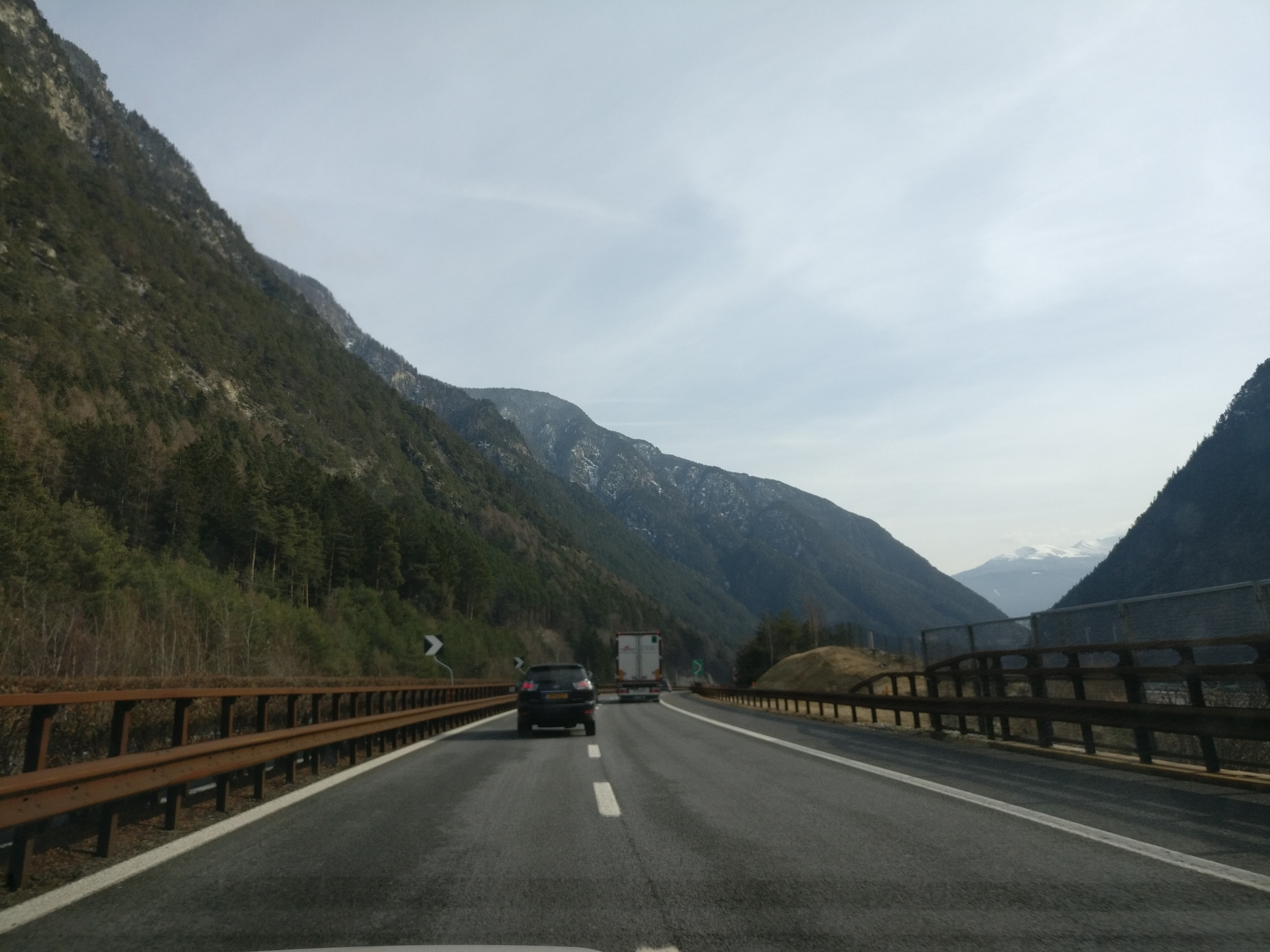 Section along Campodazzo